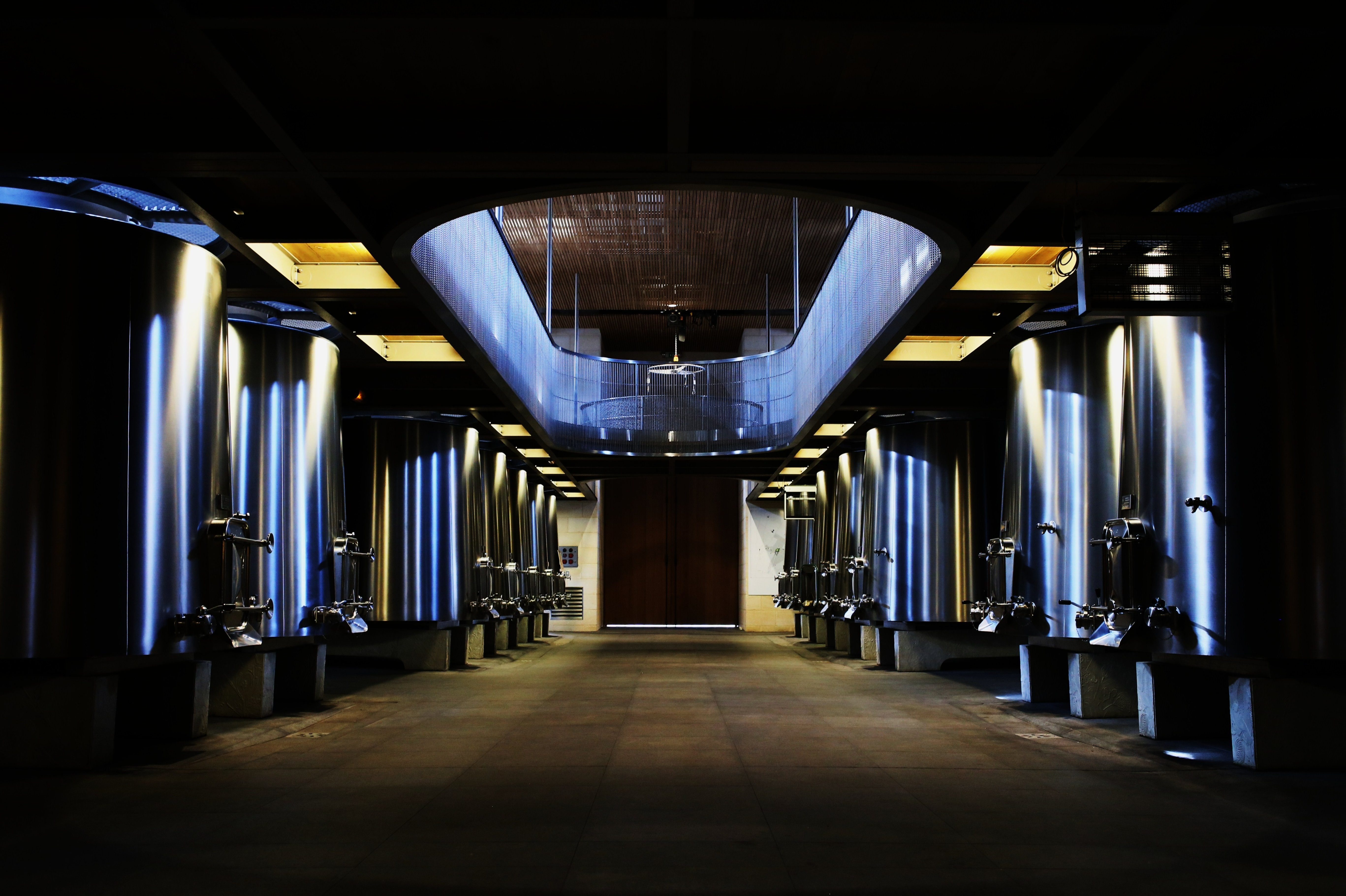 Cuverie Château Soutard